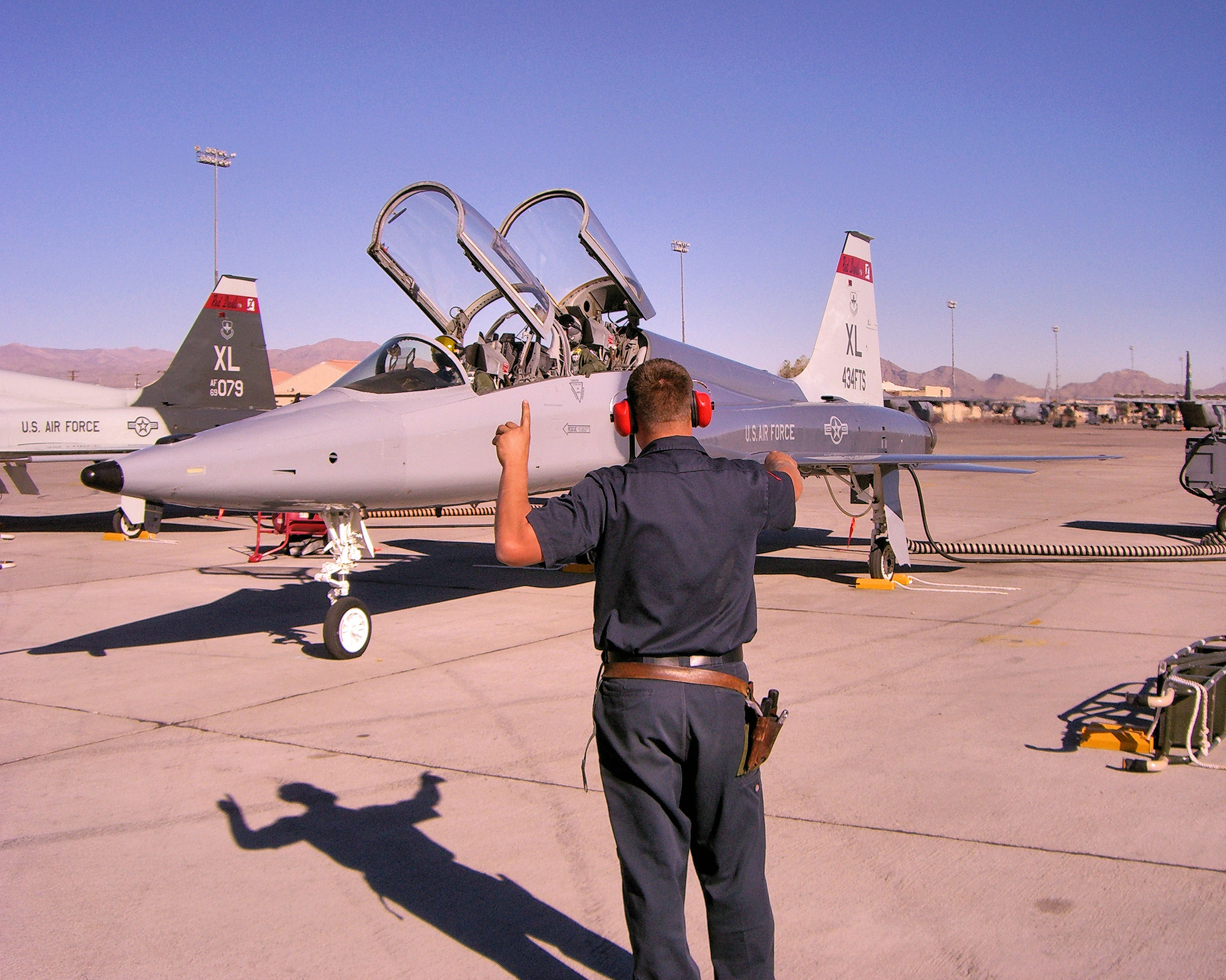 LAUGHLIN AIR FORCE BASE, Texas --A Laughlin maintainer, Mr. Keith Harrington, gives Lt. Col. Doug Downey, 434th FTS director of operations, and Capt. Allena Lewis the signal to start the engines prior to the beginning of an aggressor mission during the mission employment exercise at Nellis Air Force Base, Nev., early last December. Mission employment is the two-week long final exercise for the U.S. Air Force Weapons School at Nellis. (U.S. Air Force photo Capt. Patrick Giggy)